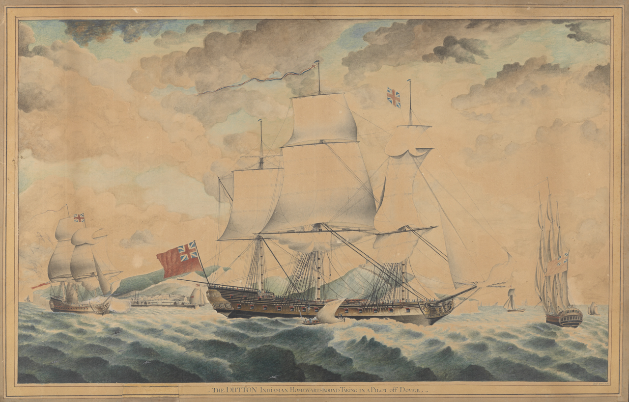 The Dutton Indiaman Homeward-bound taking in a Pilot off Dover Medium includes graphite. The Dutton Indiaman Homeward-bound taking in a Pilot off Dover